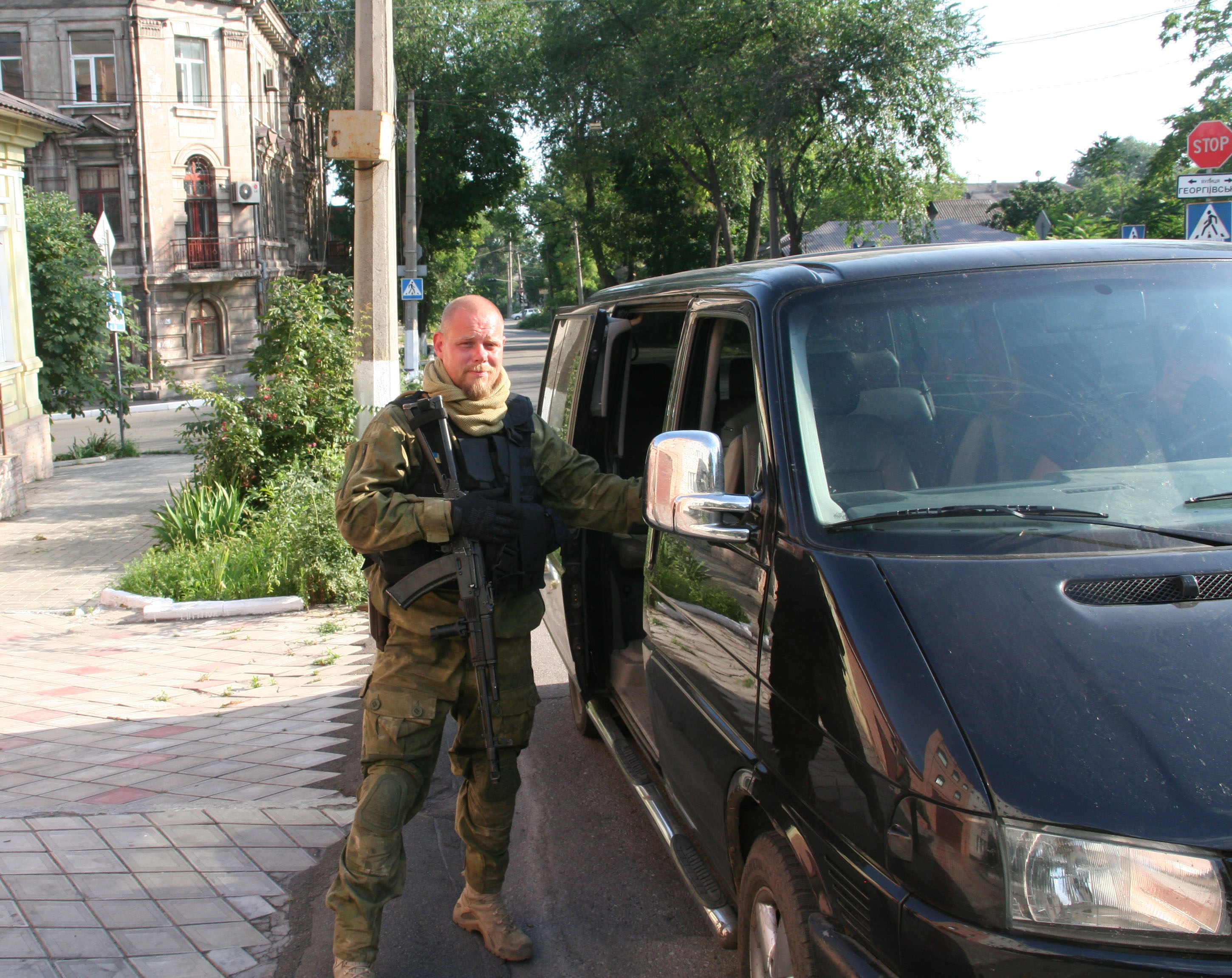 Mikael Skillt, Swedish volunteer in the Azov Battalion, in front of the former separatist headquarters in Mariupol.